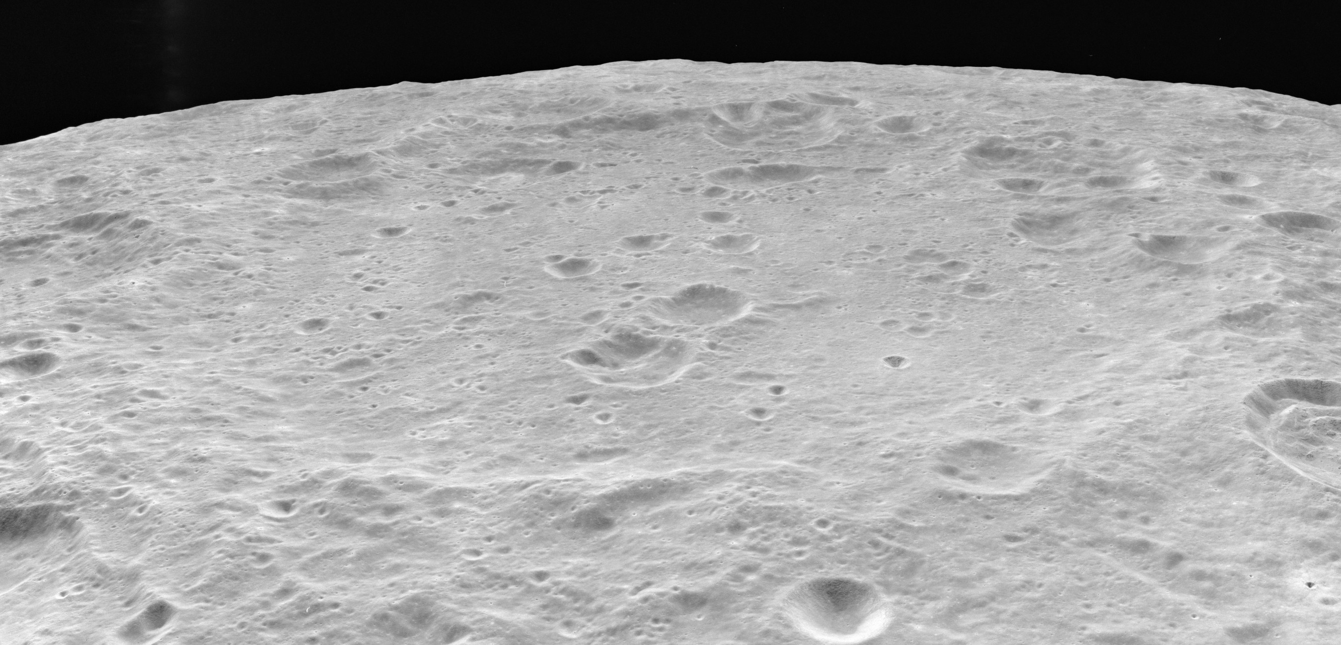 Oblique view of Pasteur crater, on the far side of the moon.